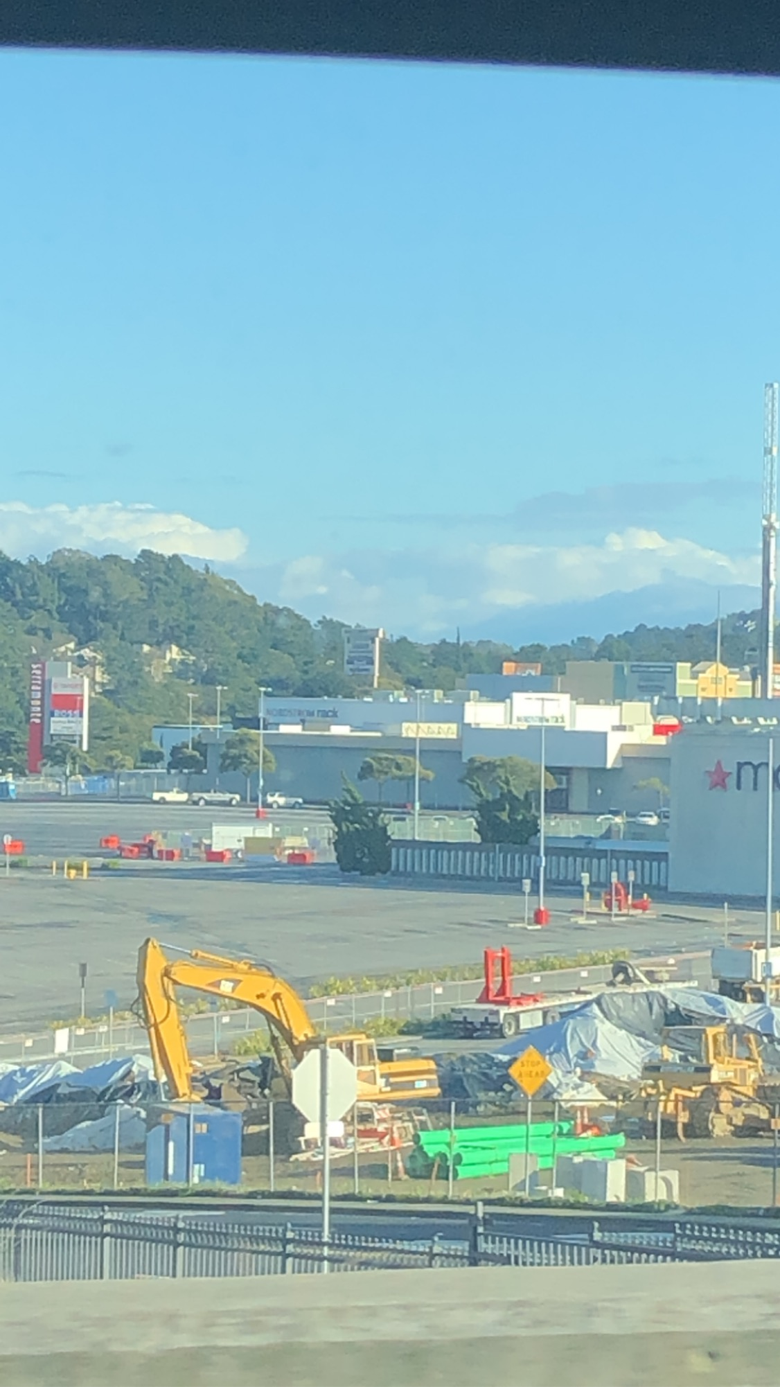 Currently, there is a big area north of the mall which was formerly a Denny’s and Firestone and a portion of the adjacent parking lot and are building additional retail to accommodate customers.